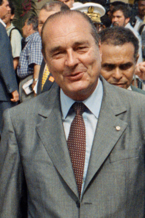 French president Jacques Chirac